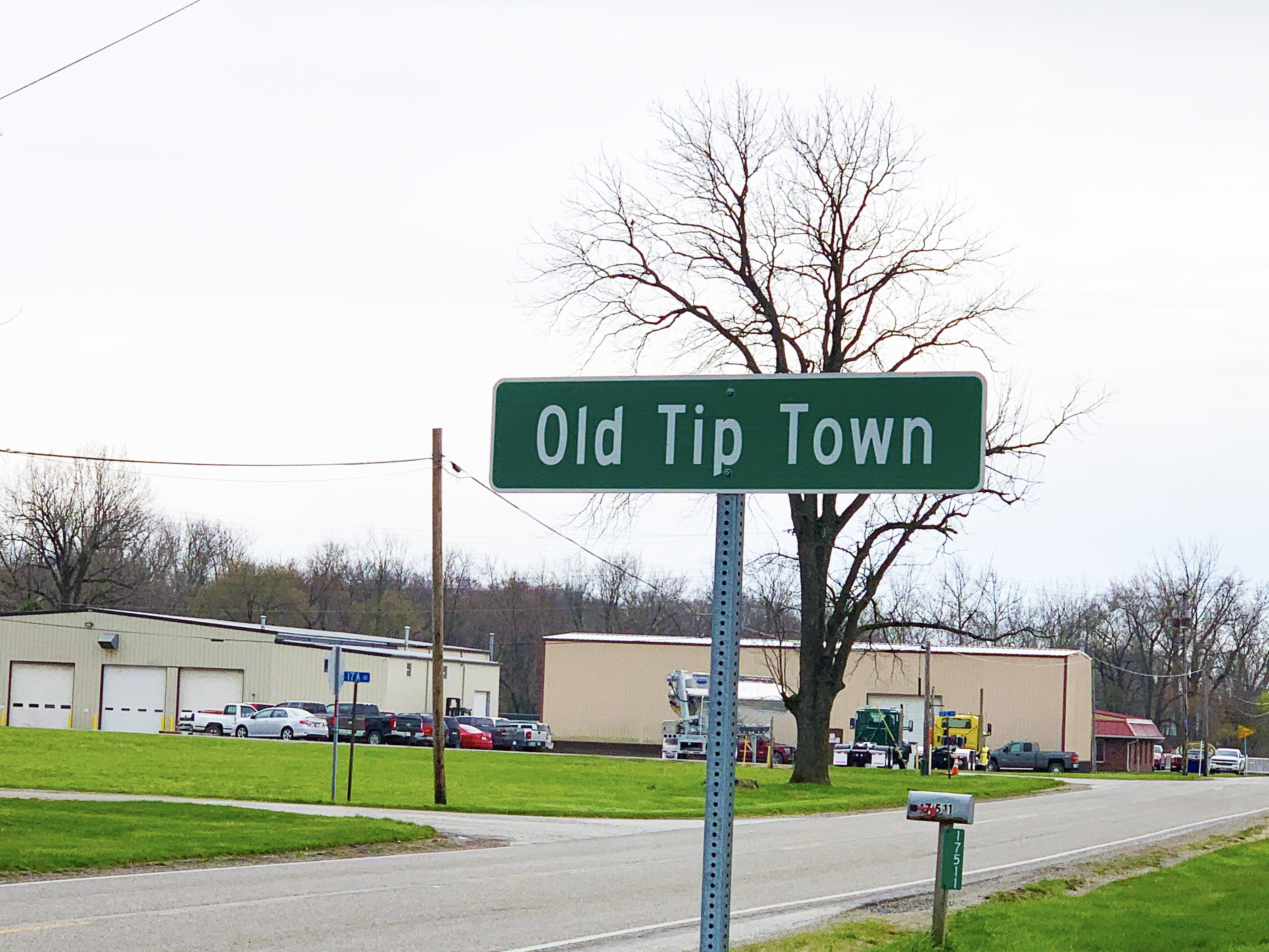 Sign of Old Tip Town viewed from the the north facing south.